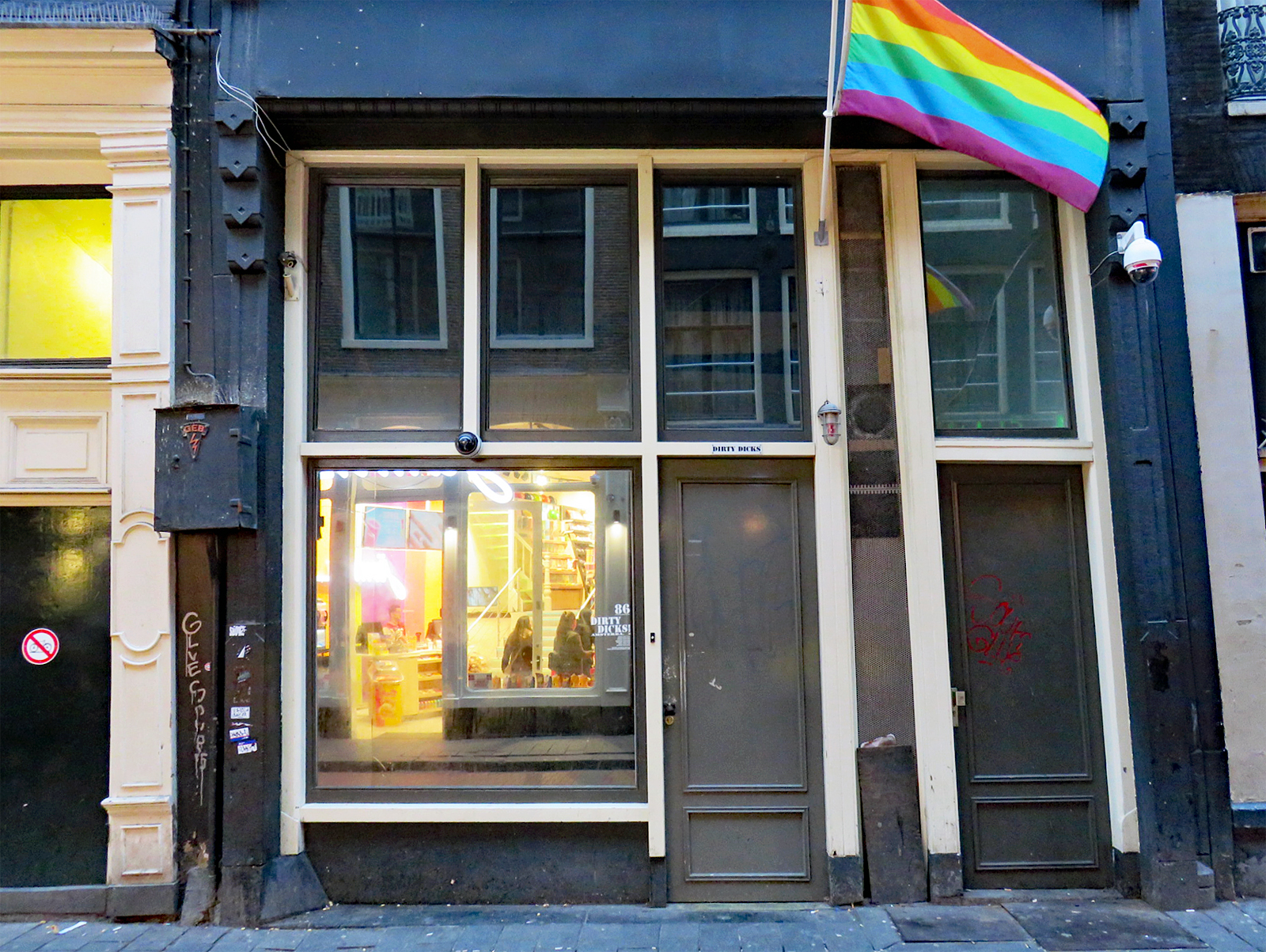 The gay cruising bar Dirty Dicks, which is located at Warmoesstraat 86 in Amsterdam since 1994. From 1979 to 1994 this place was the gay leather bar The Eagle.